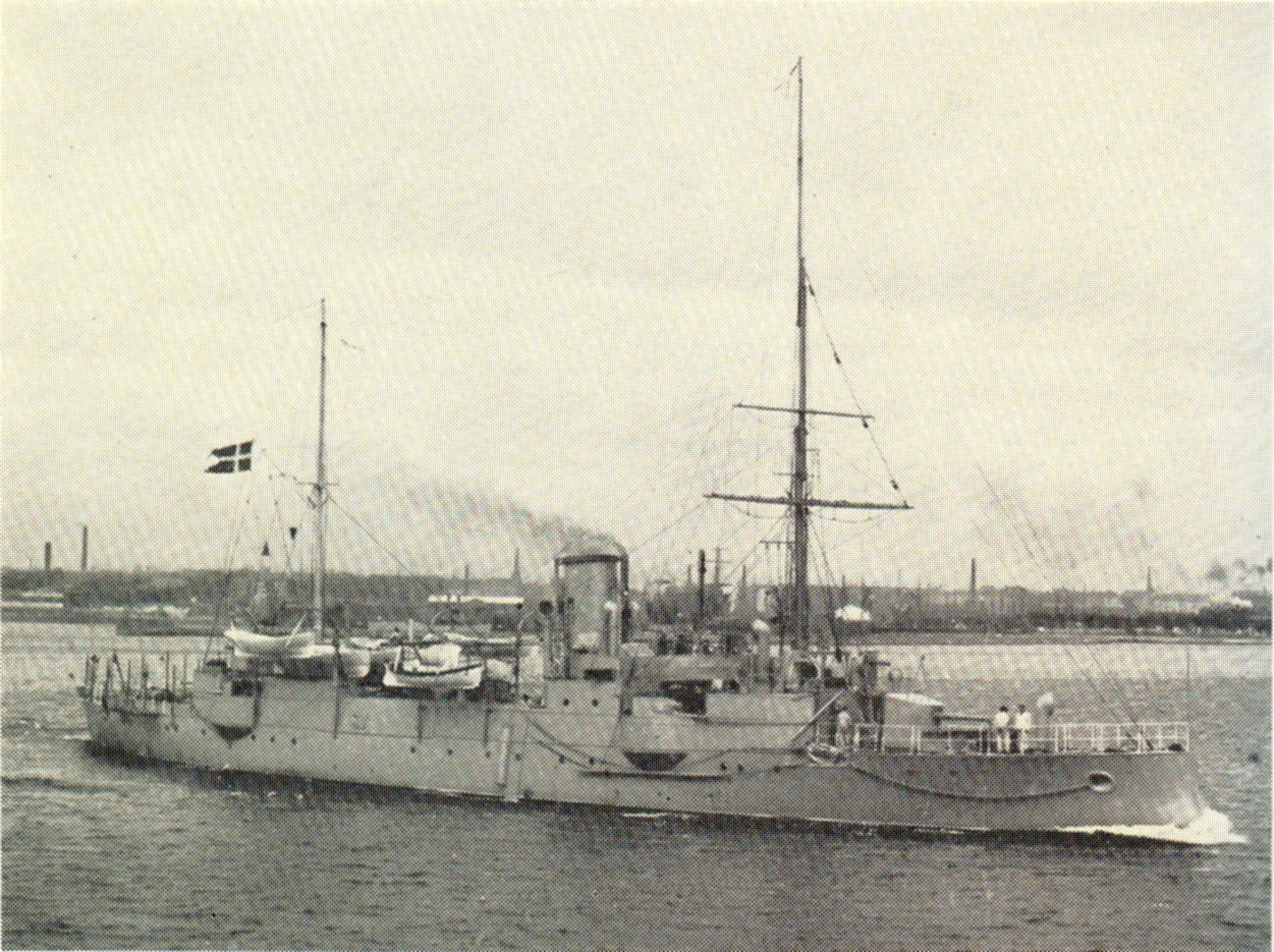 Small Danish Cruiser Heimdal 1906